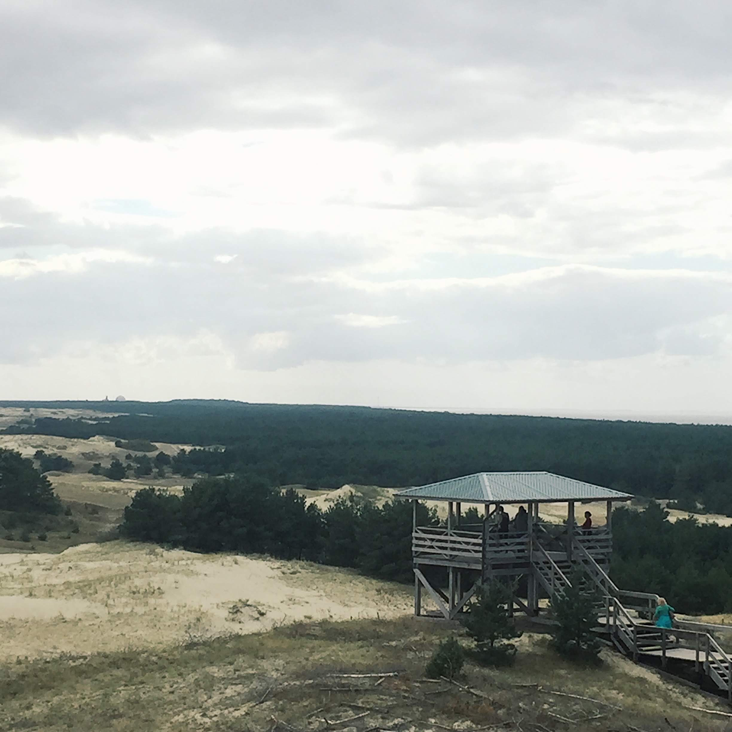 Curonian Spit National park: Zelenograd district, Kaliningrad region, Kaliningrad, Russia This image is related to the protected area of Russia number 3900040